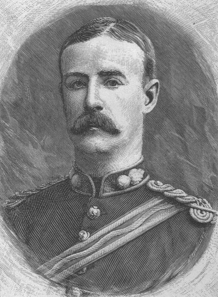 Captain William Grant Stairs, leader of the 1891-92 Stairs Expedition.